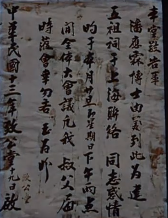 A Chinese language poster from 1920s East London